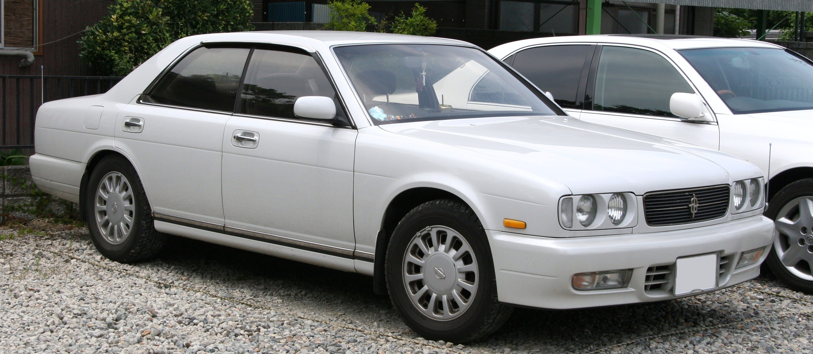 NISSAN Cedric